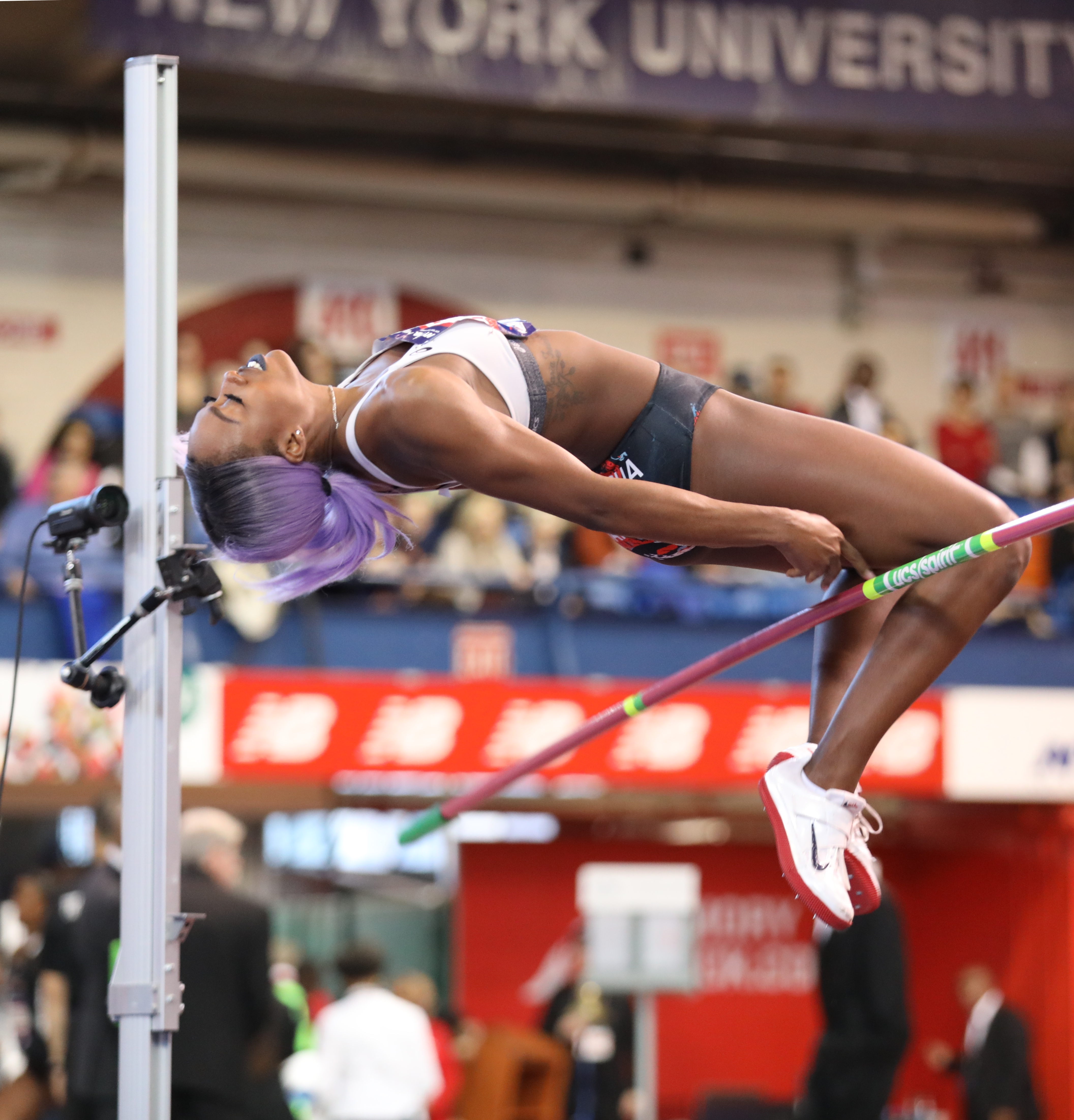 2019 Millrose Games